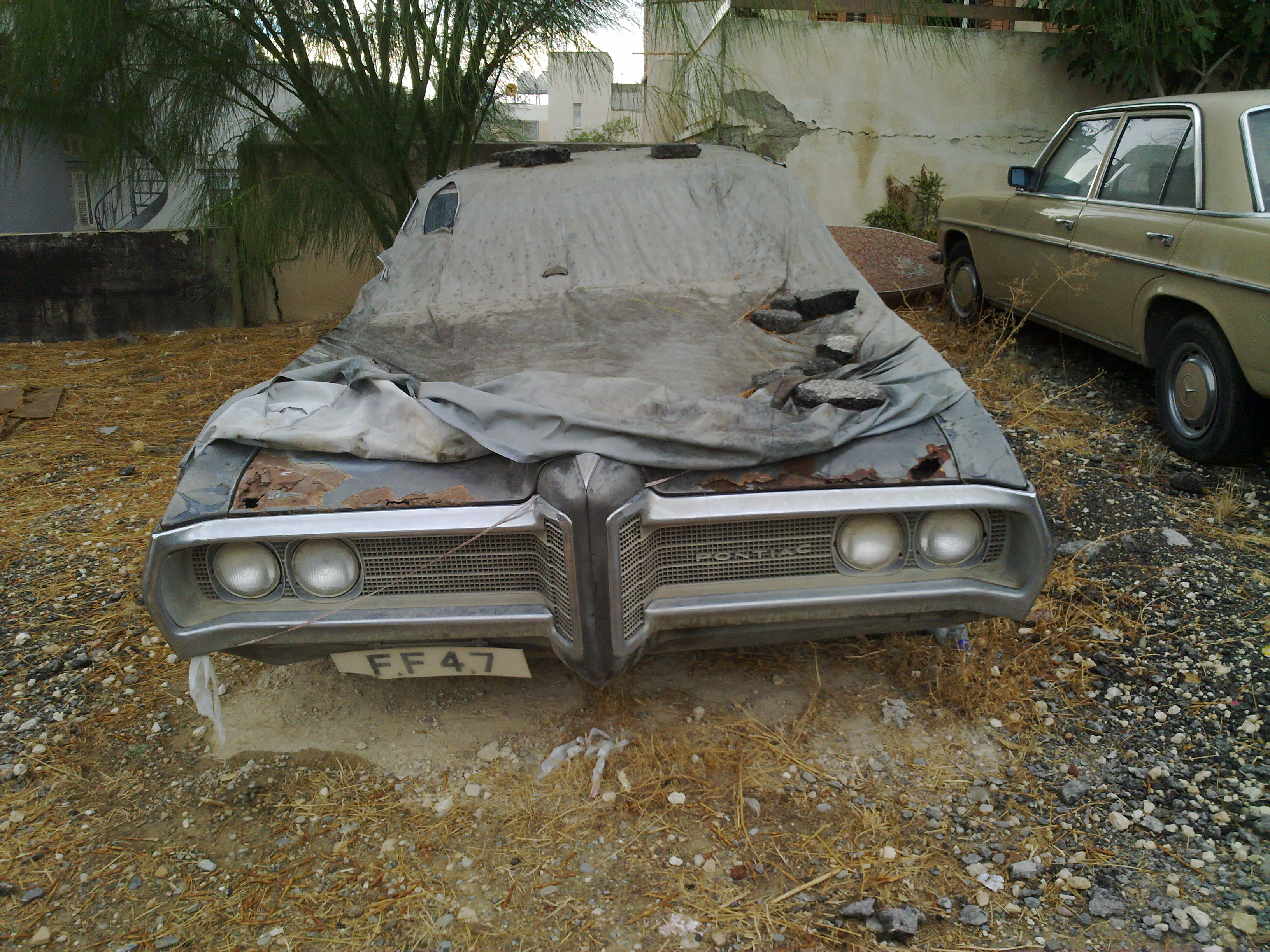 Pontiac Parisienne in Nicosia Cypeus